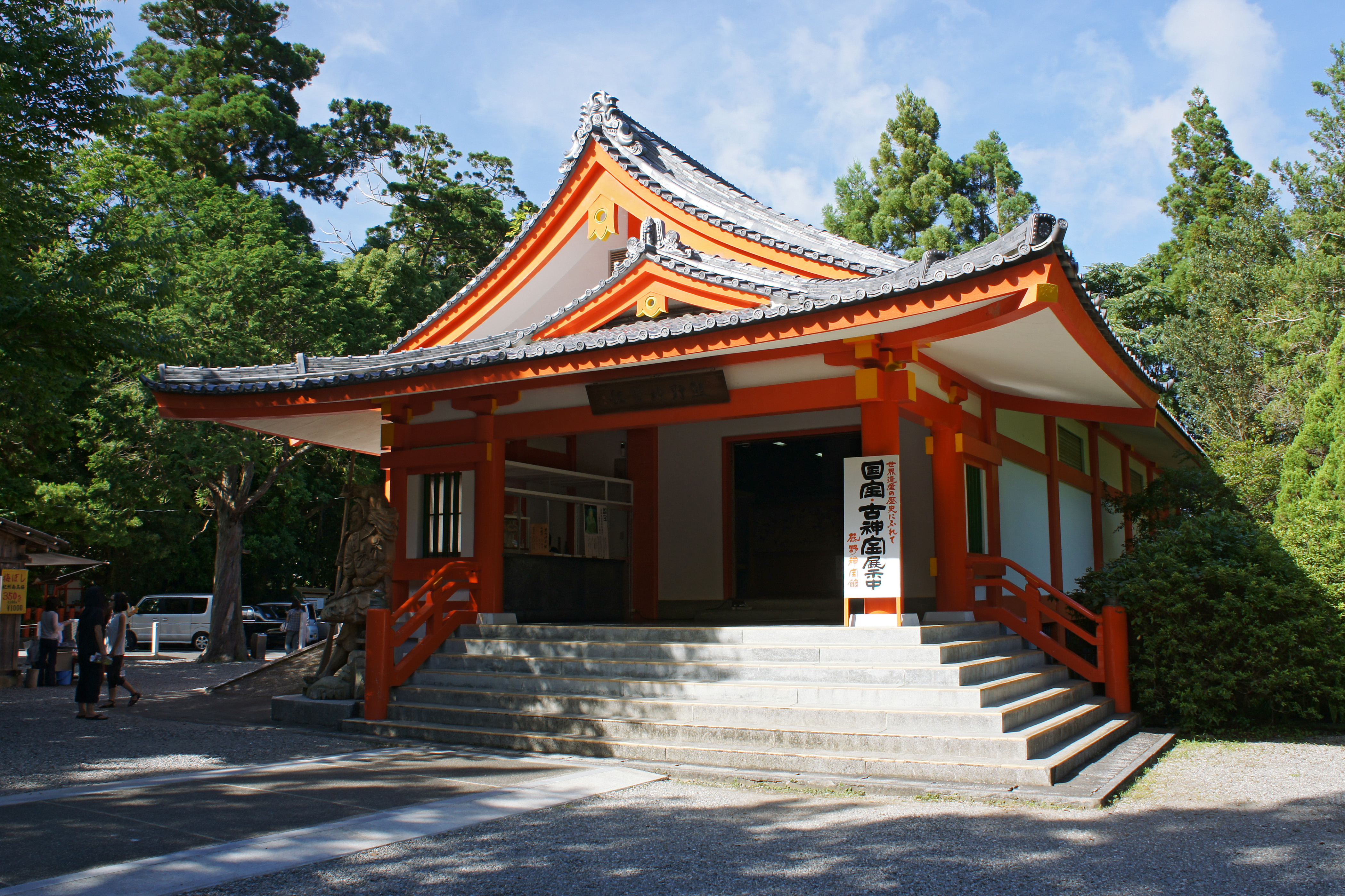 Kumano-Hayatama-shrine in Shingu, Wakayama Prefecture, Japan.